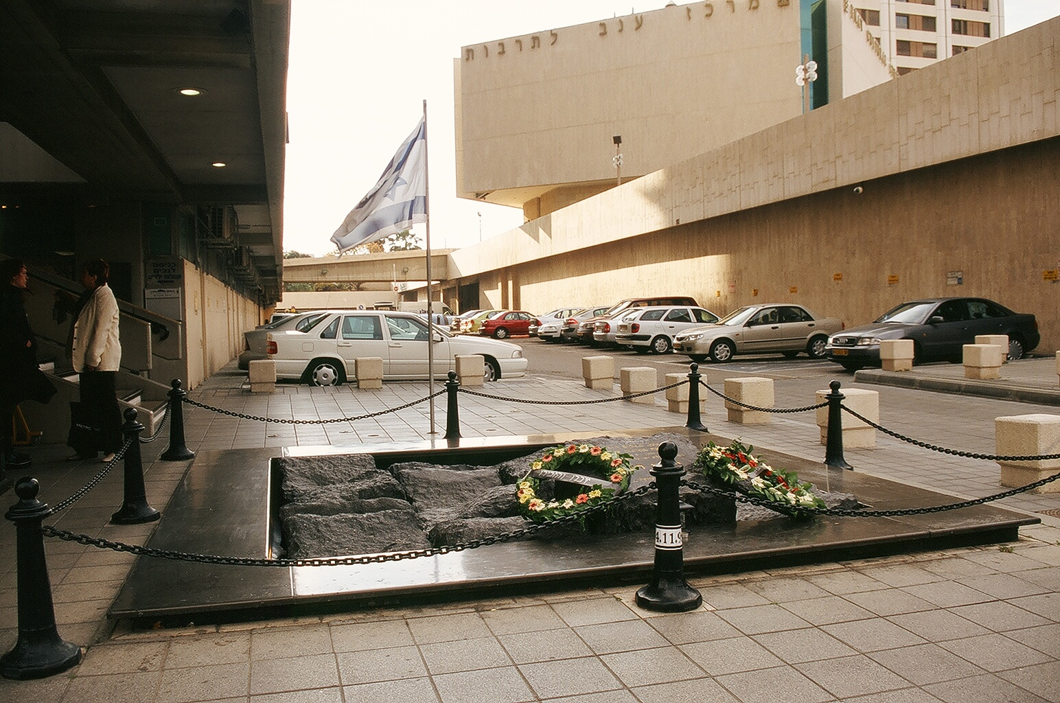 Place Yitzhak Rabin was shot.